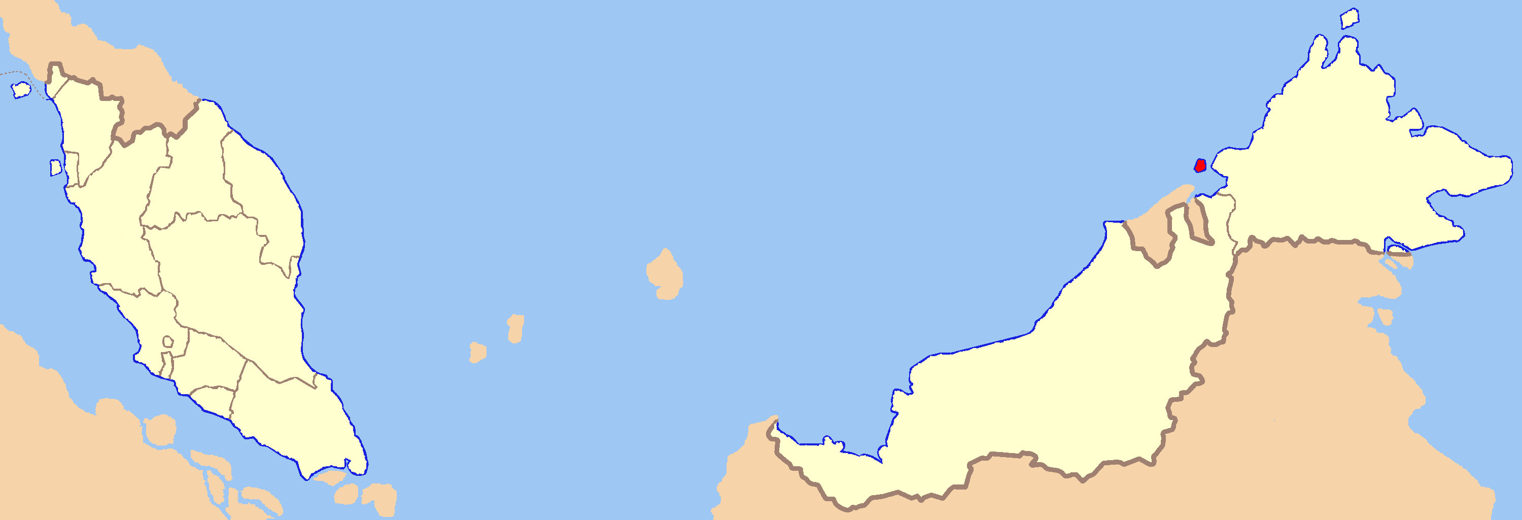 Map of Malaysia with Labuan FT highlighted